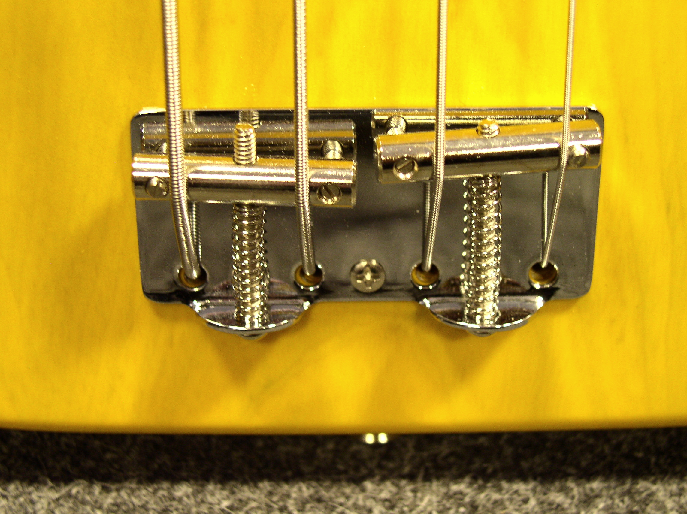 Bridge of a Fender Precision Bass, 2008 reissue of the first model series of 1951